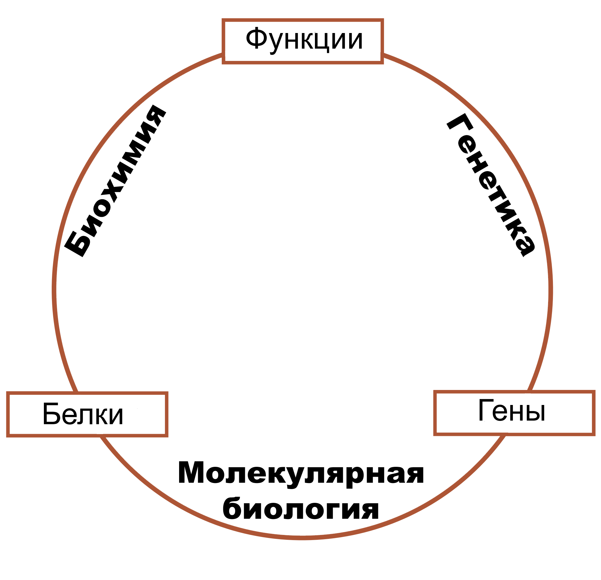 A diagram showing the schematic relationship between biochemistry, genetics and molecular biology by their relationships to function, protein and genes.